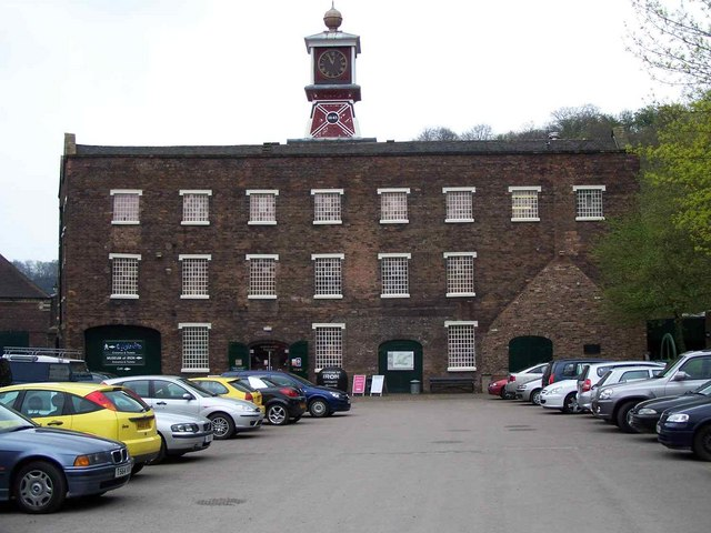 Museum of Iron, Coalbrookdale One of the 10 museums in the Ironbridge Valley